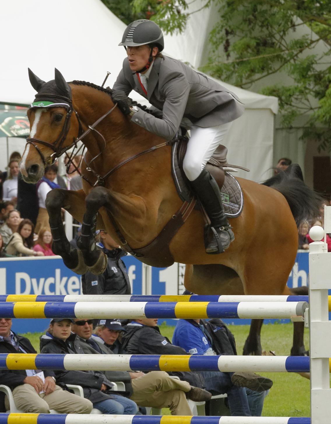 Internationales Pfingstturnier Wiesbaden 2013: Henrik von Eckermann mit Caprys The making of this document was supported by the Community-Budget of Wikimedia Germany.